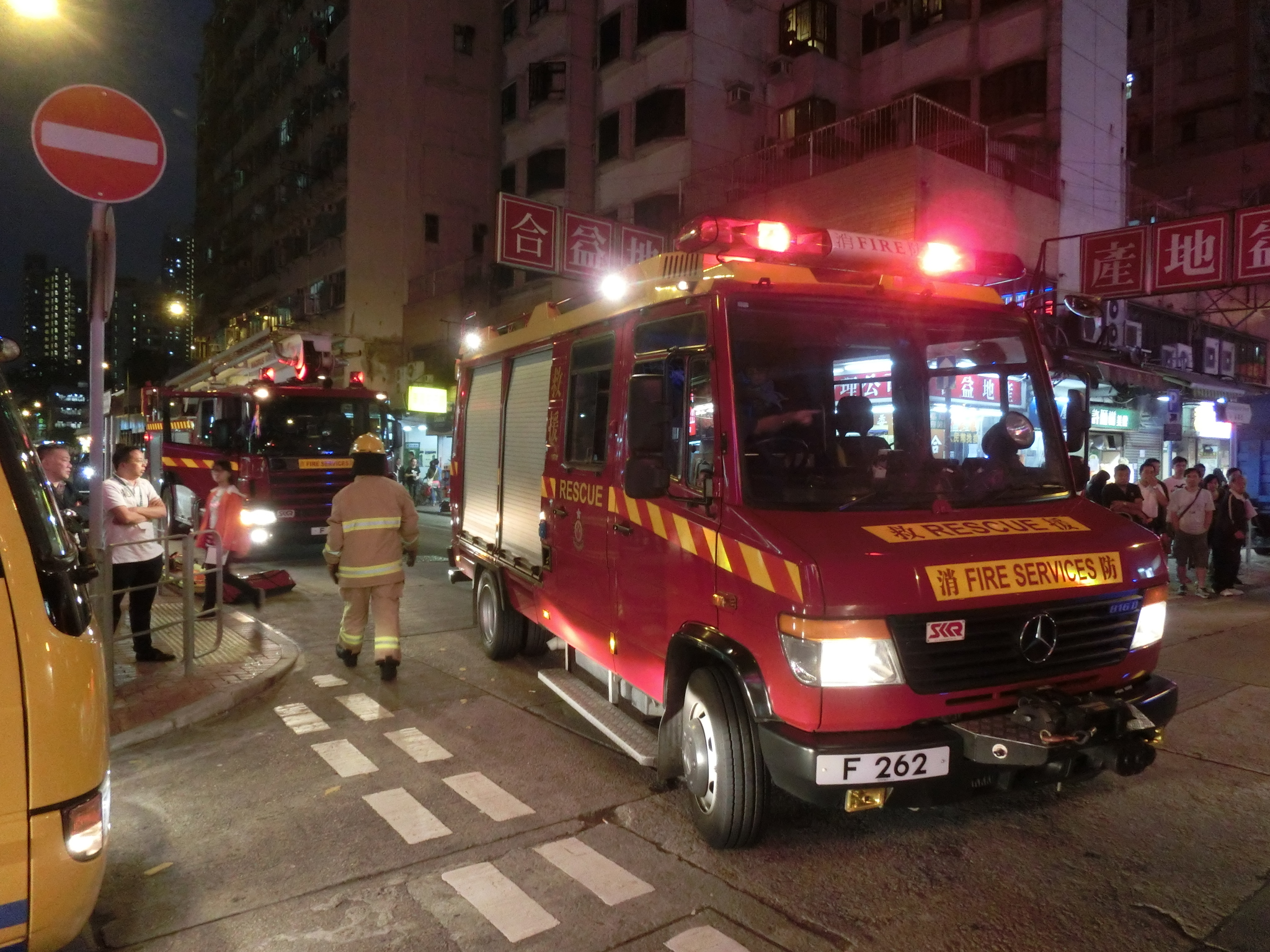 Fire Service rescue at work, Un Chau Street, Cheung Sha Wan, Hong Kong